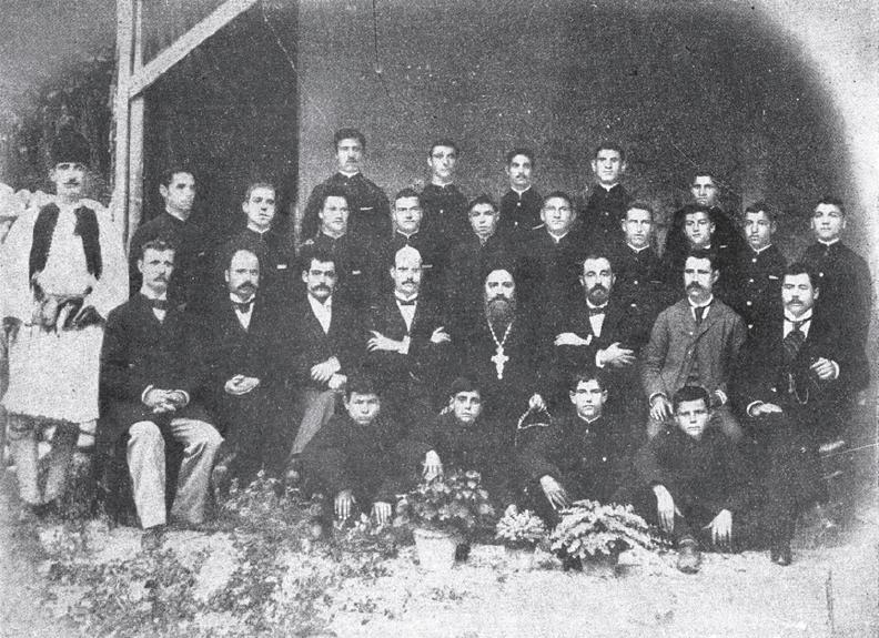 Bulgarian exarchist school teachers from Syar or Ser, today Serres , Ivan Garvanov (fourth sitting), Hristo Matov (pre-last sitting)